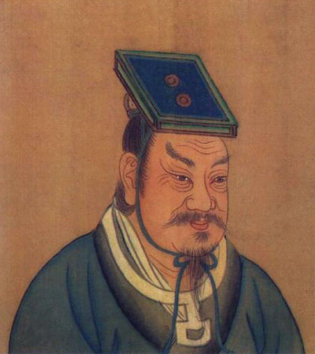 Emperor Wudi of Liu Song.